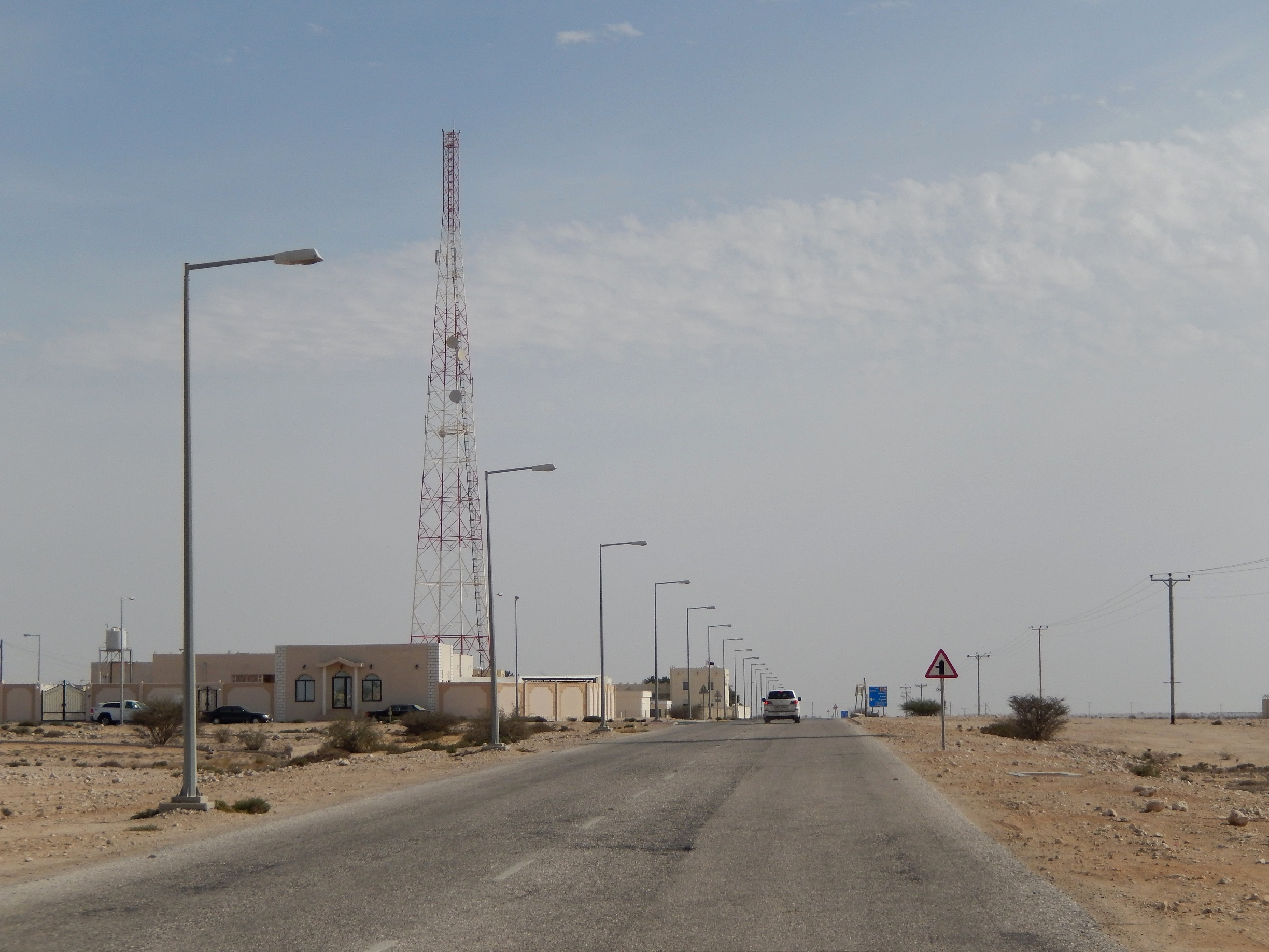 Road in Al Jumailiyah that connects the northern and southern parts of the village (municipality of Al Rayyan, Qatar).